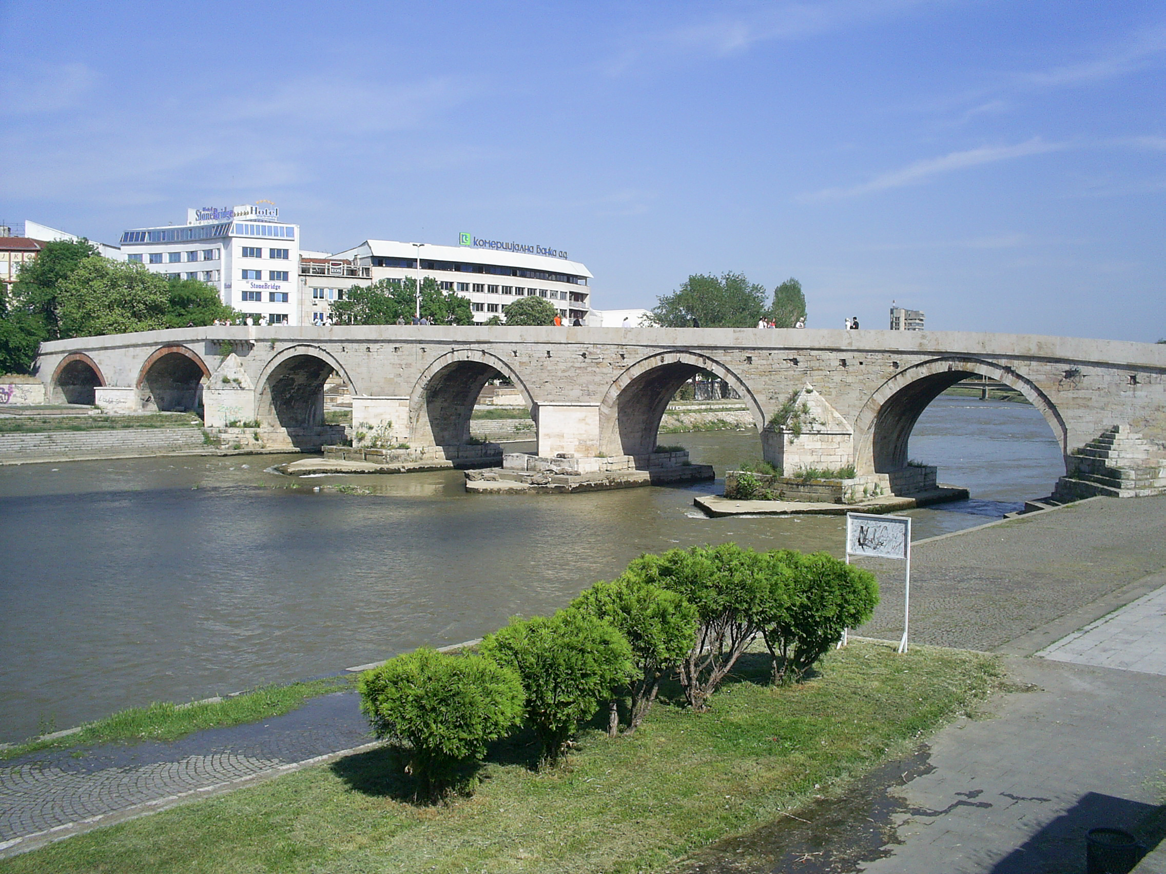 The Stone Bridge in Skopje, symbol of the city